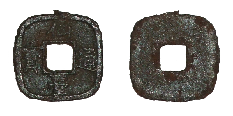 Sendai-tsuho